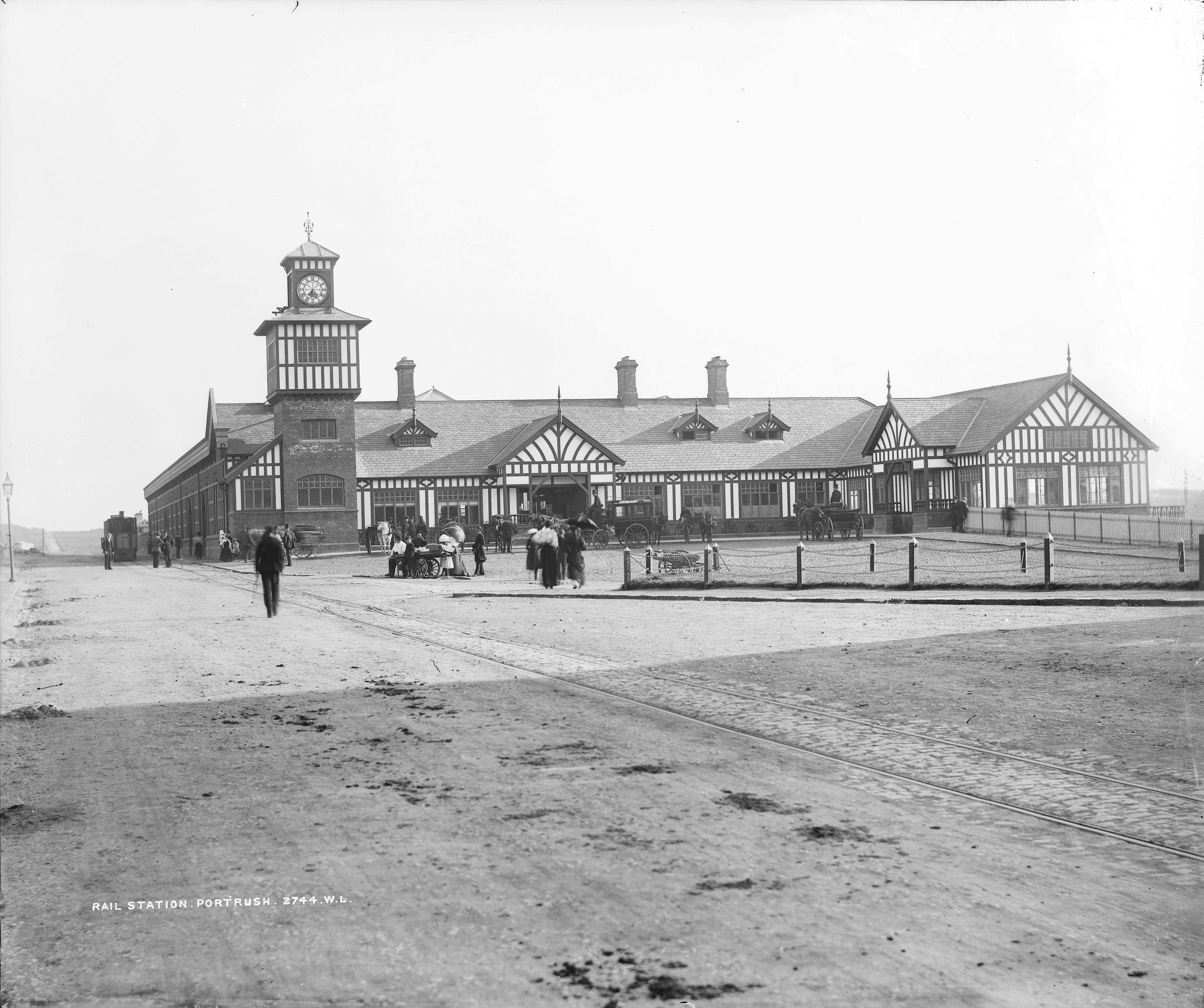 Portrush Rly Station, Giant's Causeway Tramline in foreground